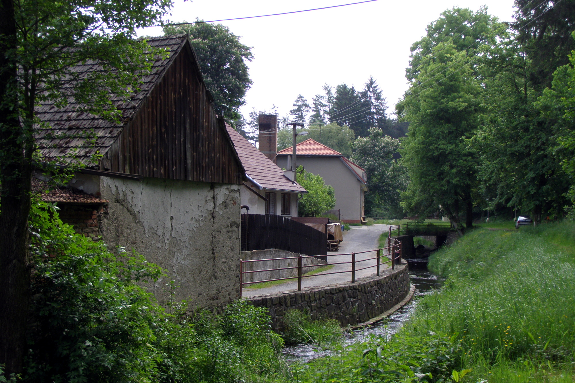 Dobrá Voda – Kožichovice part. Markovka stream